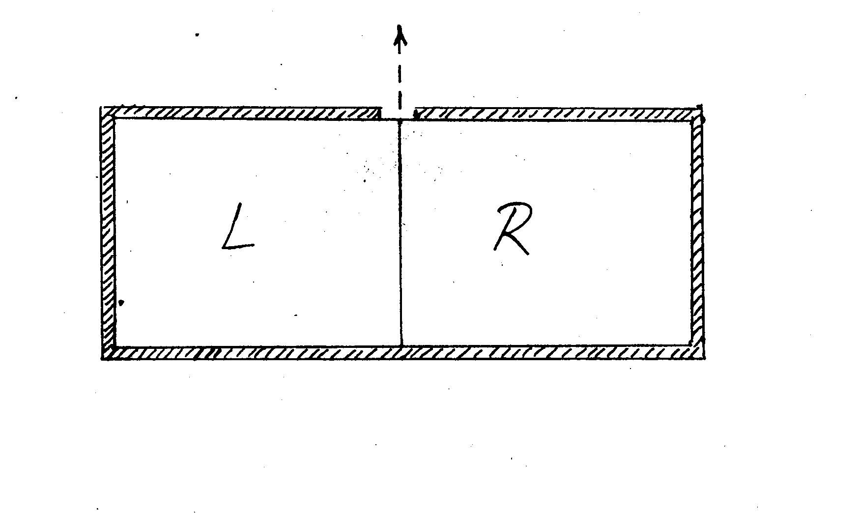 Gibbs paradox illustration: two gas chambers divided by a wall